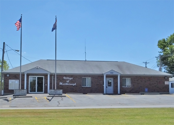 Marlborough, MO